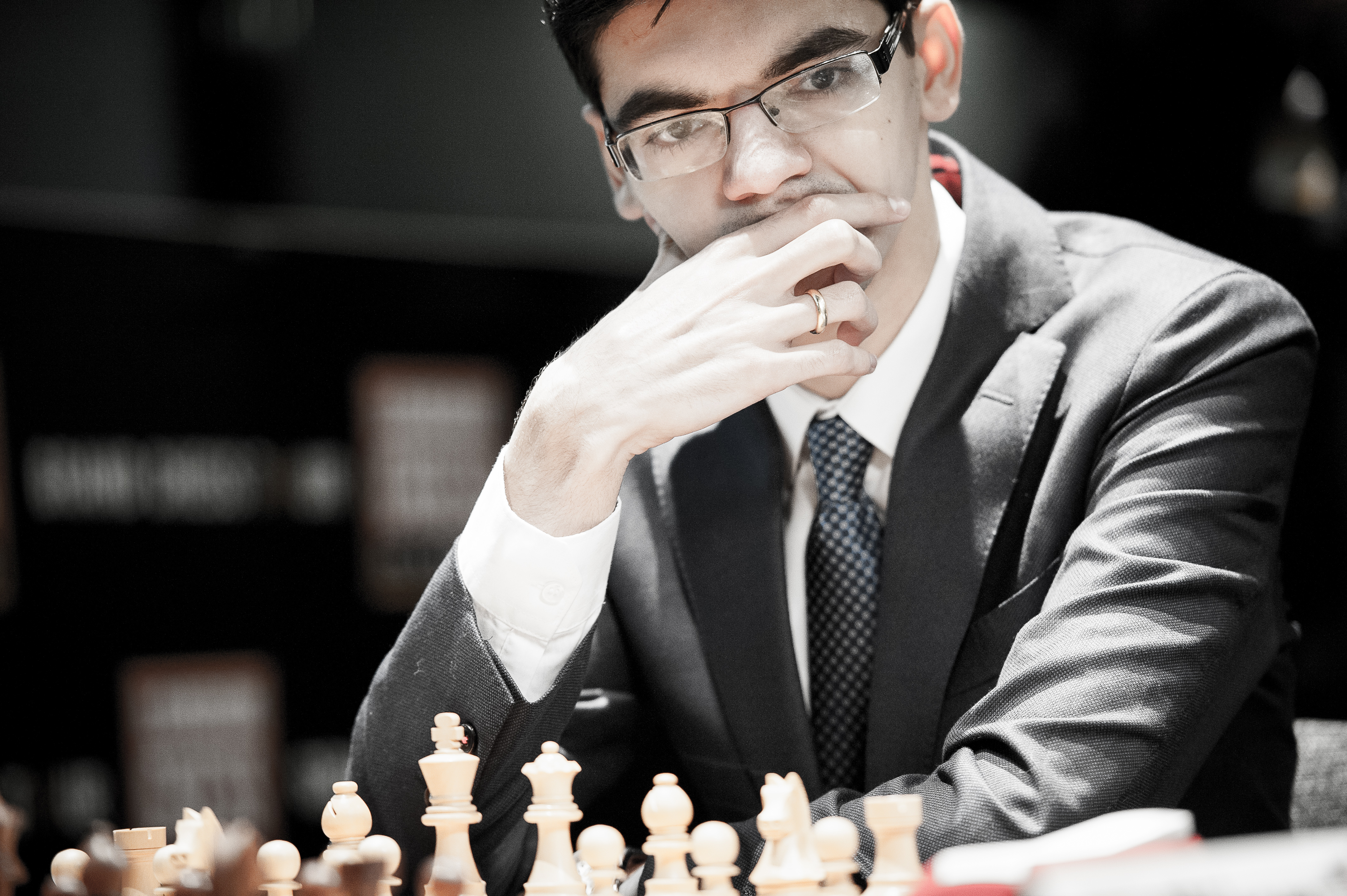 GM Anish Giri, World Nr. 10